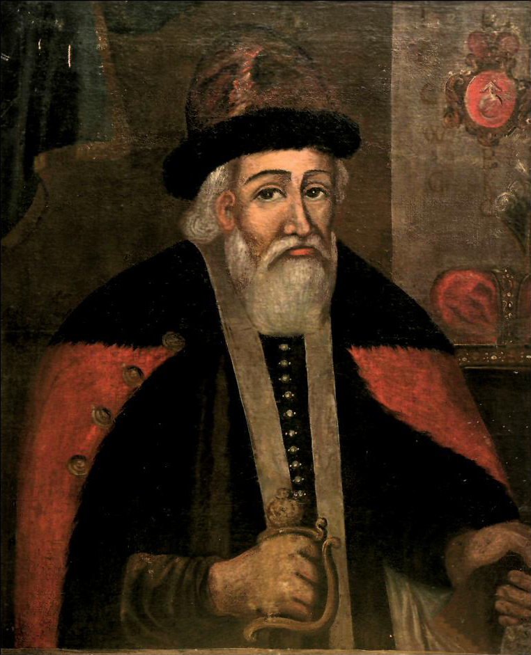 Portrait of Yanush Ostozkyi